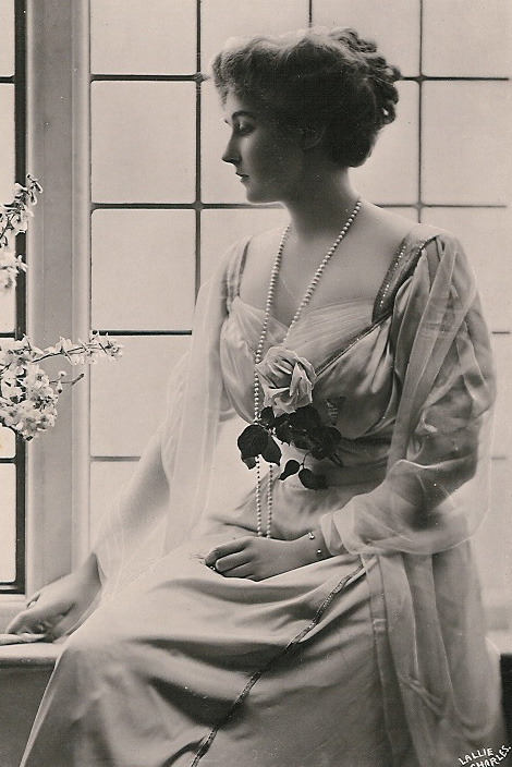 Princess Patricia of Connaught (later Lady Patricia Ramsay)